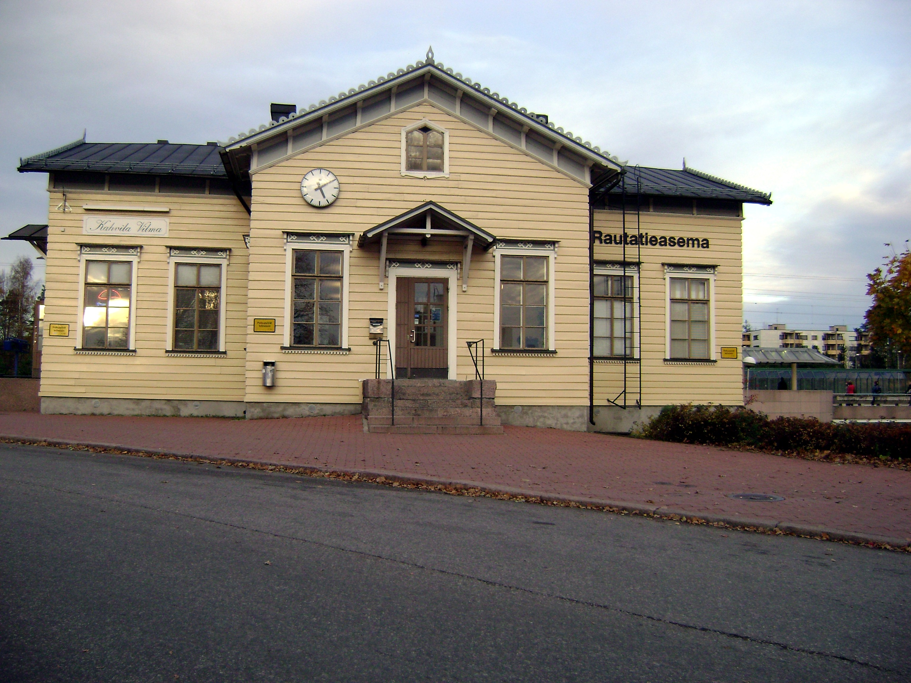 Järvenpää railway station from the city centre. Järvenpää, Finland.